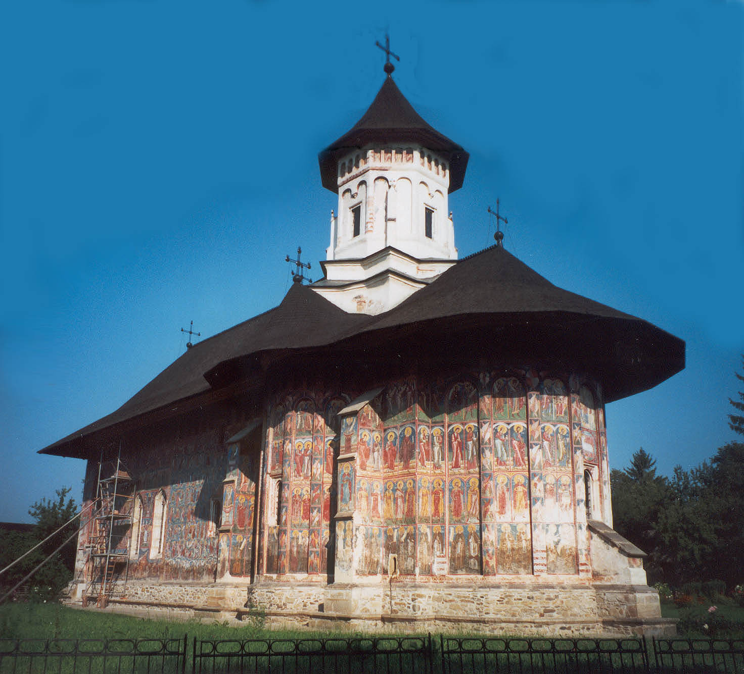 Church of Moldovita Monastery